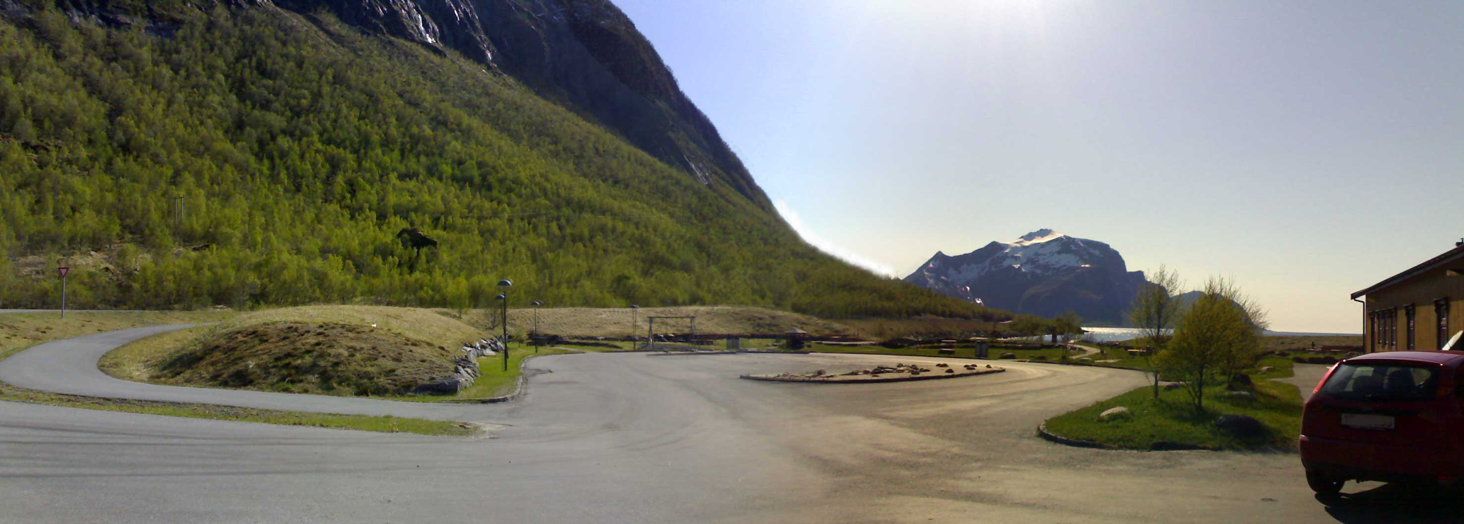 Picture of the rest stop at Storvik, Norway.